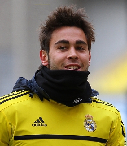 Tomás Mejías training for Real Madrid C.F.